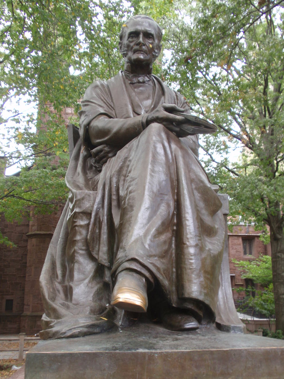 Statue